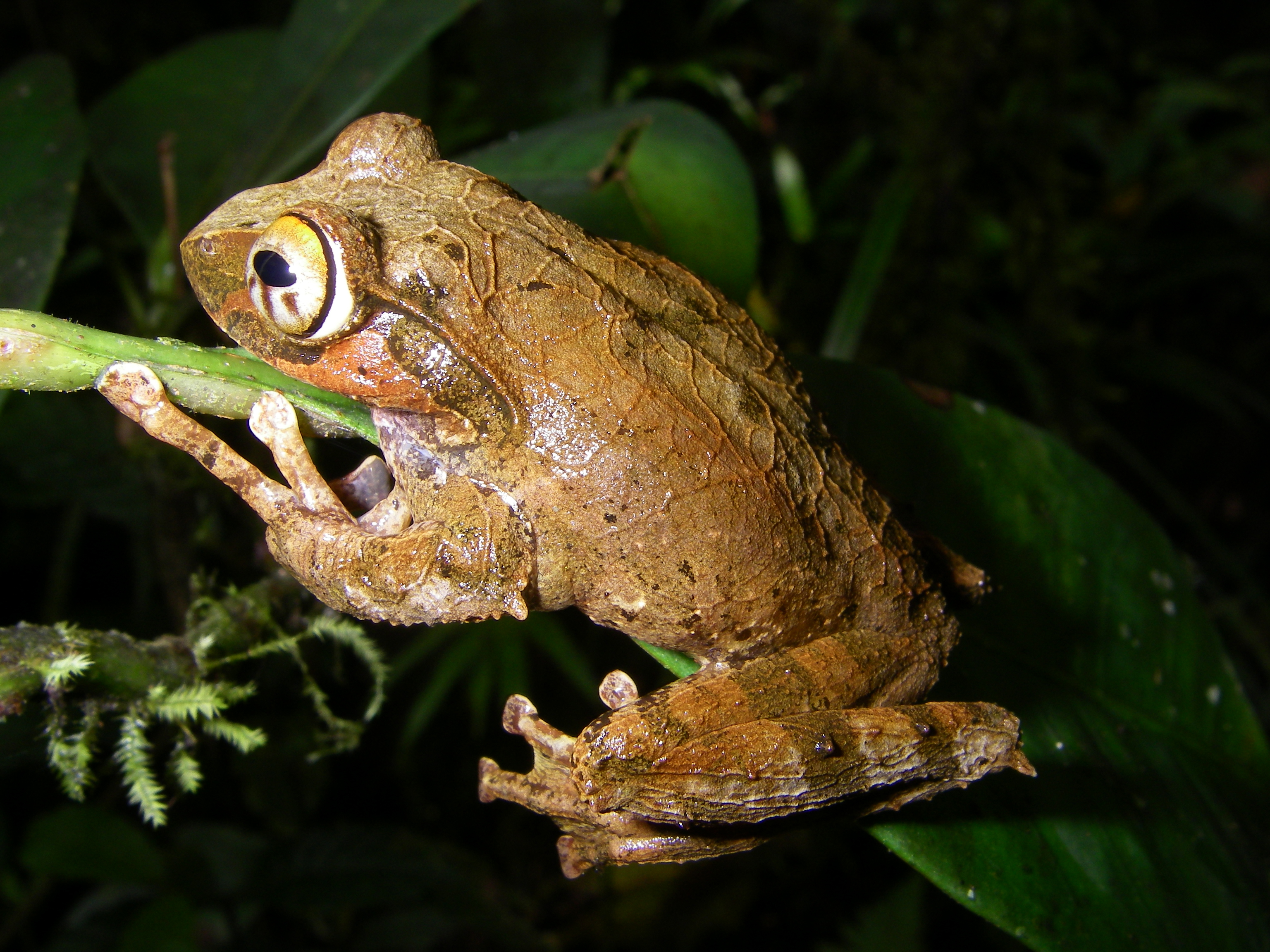 Boophis reticulatus (Mantellidae, Boophinae); picture taken in Fompohonina, Ranomafana National Park, Madagascar